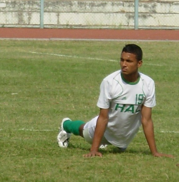 Rohit Chand (born 1 March 1992) is a Nepali football player who currently plays for I-League club HAL SC[1] and is a regular in the national team of Nepal. Chand is the youngest player to play for the Nepali senior team at International level.